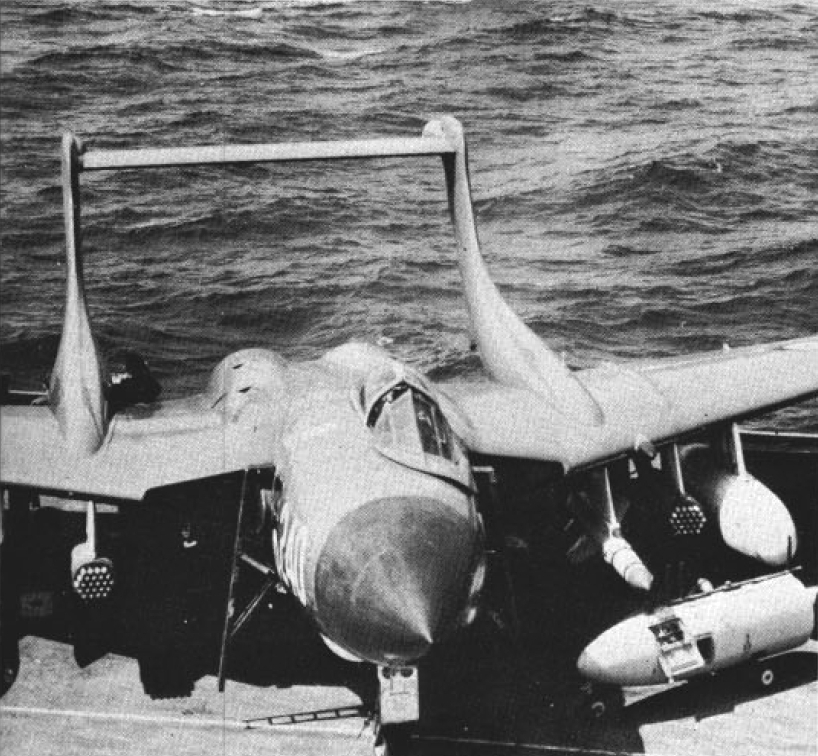 A Royal Navy de Havilland Sea Vixen FAW.1 from 892 Naval Air Squadron, assigned to the aircraft carrier HMS Hermes (R12), sits on deck of the U.S. Navy aircraft carrier USS Forrestal (CVA-59) in the Mediterranean Sea, circa 1962. The U.S. Navy carriers Forrestal and USS Enterprise (CVAN-65) were conducting joint operations with Hermes and HMS Centaur (R06).